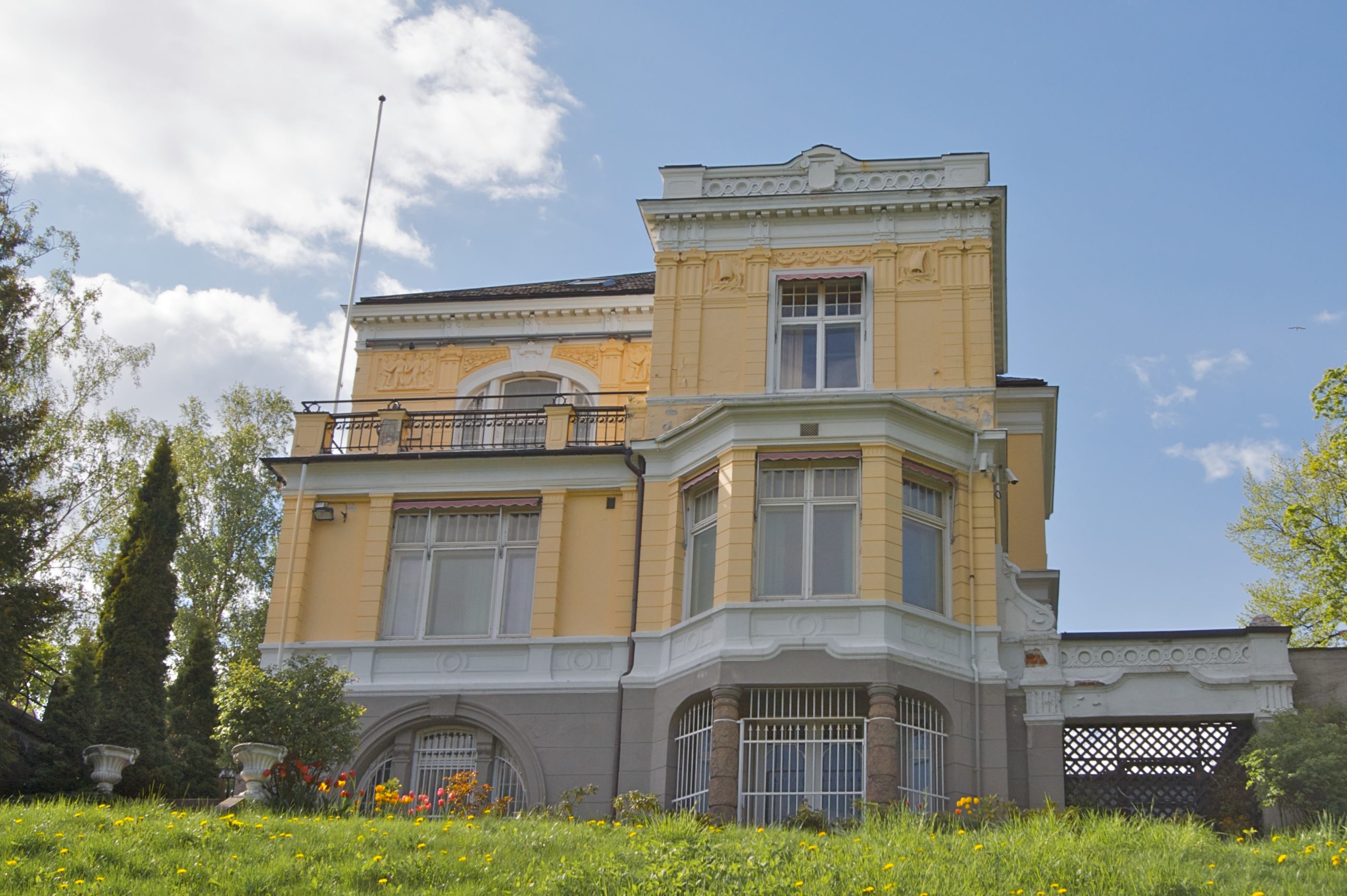 Embassy of South Africa, Oslo, Norway.